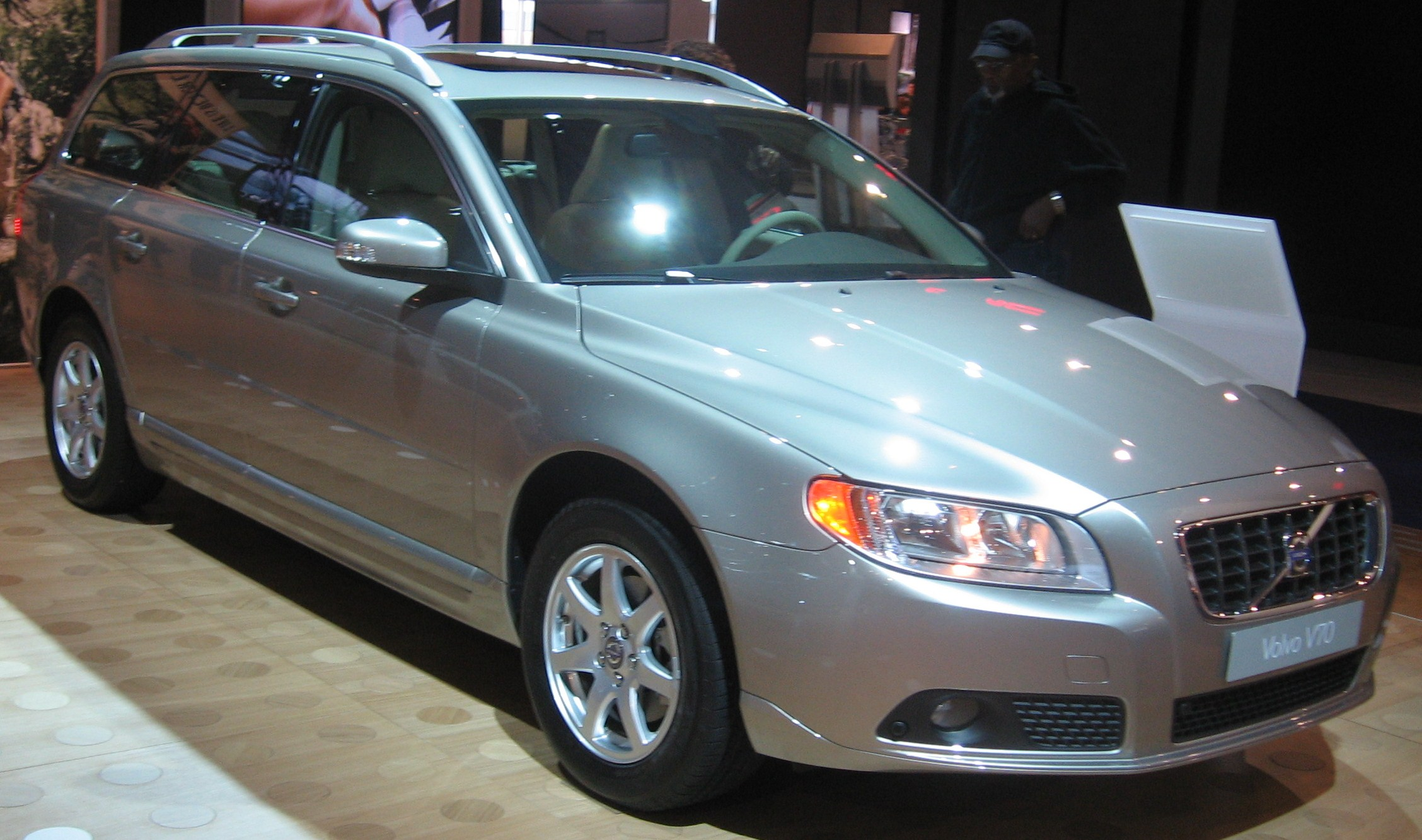 2008 Volvo V70 photographed at the 2008 Washington DC Auto Show.